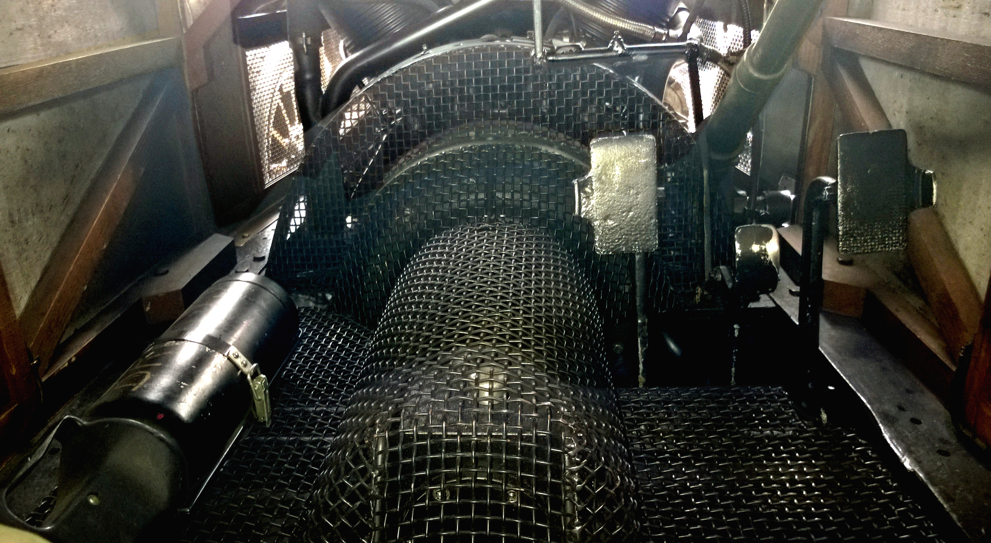 Experimental car "Brutus", inside view